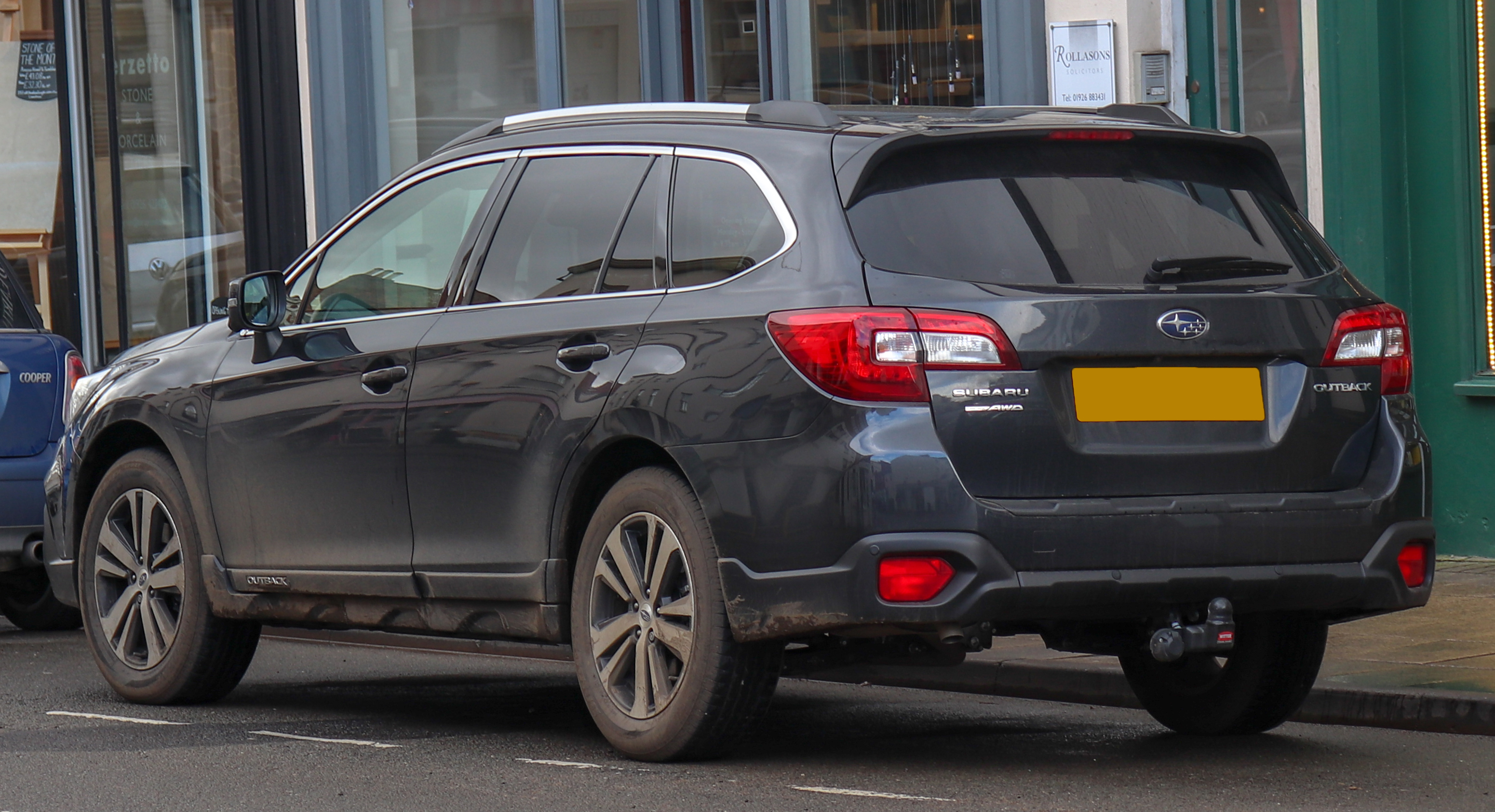 2018 Subaru Outback SE Premium Symmetrical CVT Rear 2.5 Taken in Leamington Spa